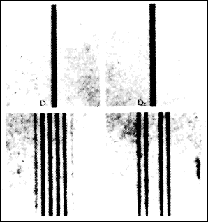 photo Zeeman took of the effect named after him